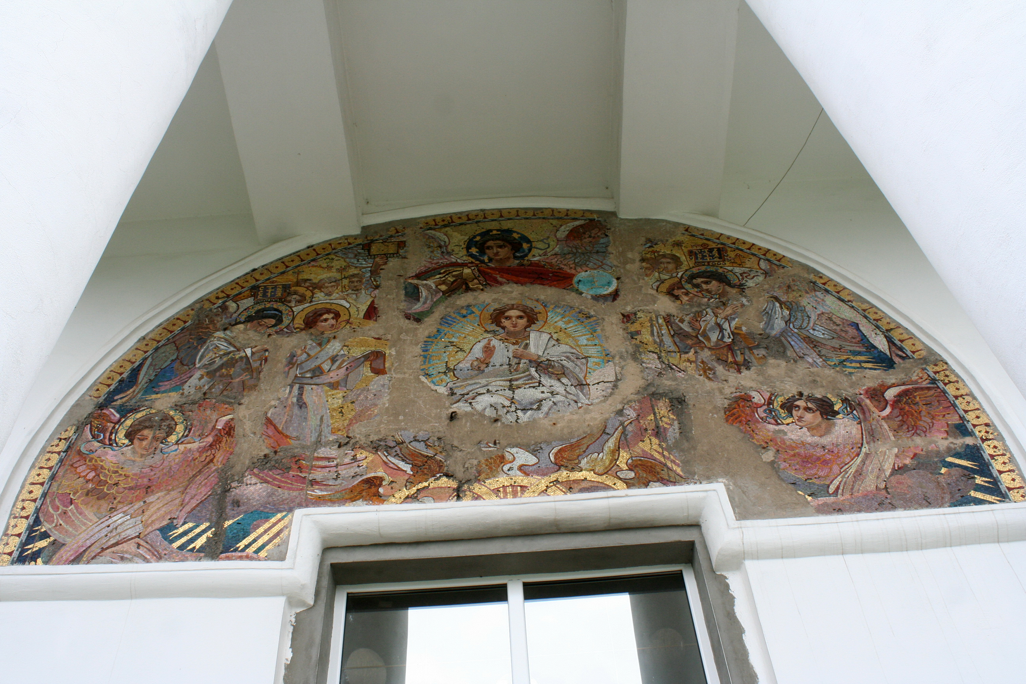 Orthodox church of the Protection of the Holy Virgin, Baranavičy. Mosaic "Cathedral of the Archangel Michael and all the heavenly host bodiless" This is a photo of Belarusian heritage monument. Reference number: 112Г000041 ( WLM)